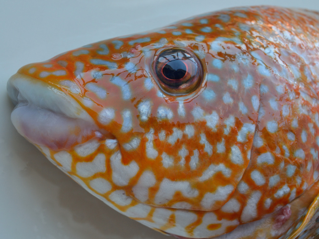 Ballan wrasse (Labrus bergylta)